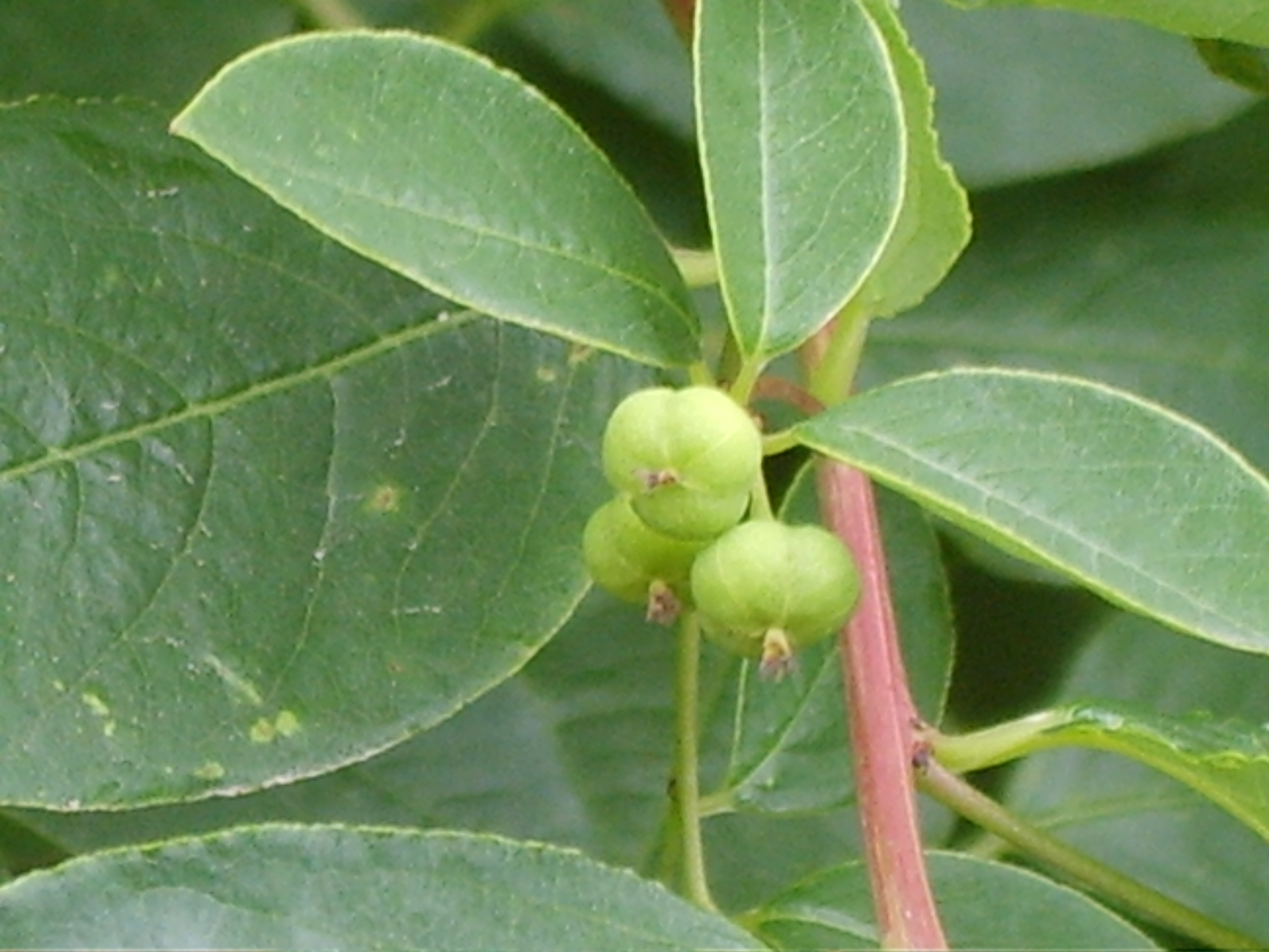 Securinega suffruticosa in Bupyung, Korea